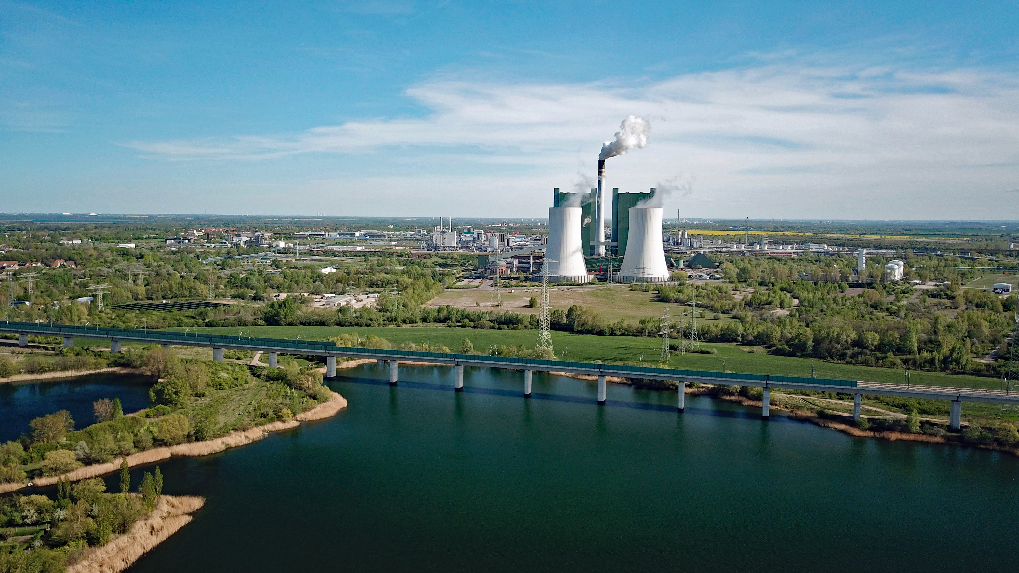 Rattmannsdorf, Schkopau, Saxony-Anhalt, Germany